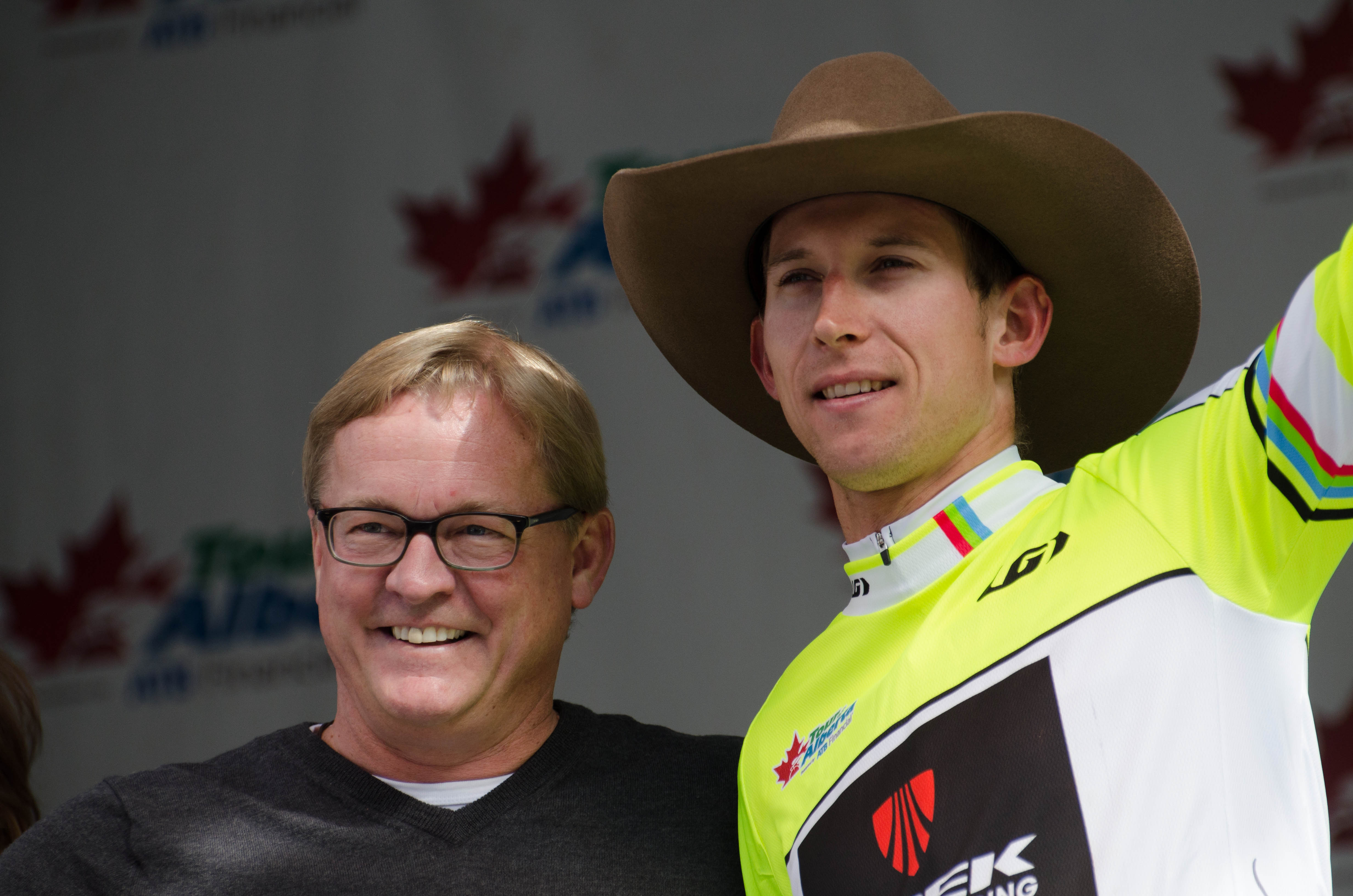 Bauke Mollema and David Eggen at the 2015 Tour of Alberta. Please attribute Connor Mah if used elsewhere